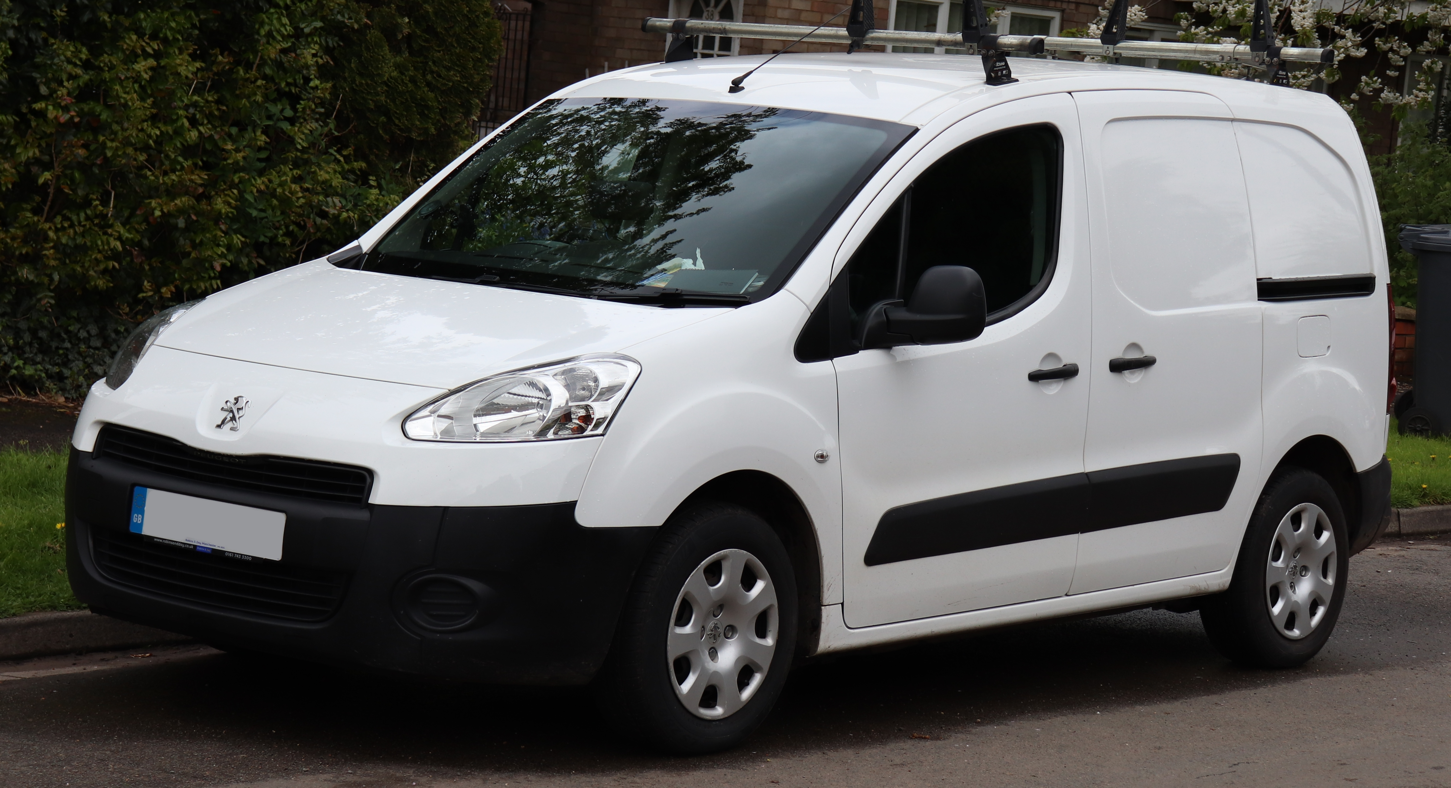 2013 Peugeot Partner 850 S L1 HDi 1.6 Front Taken in Leamington Spa